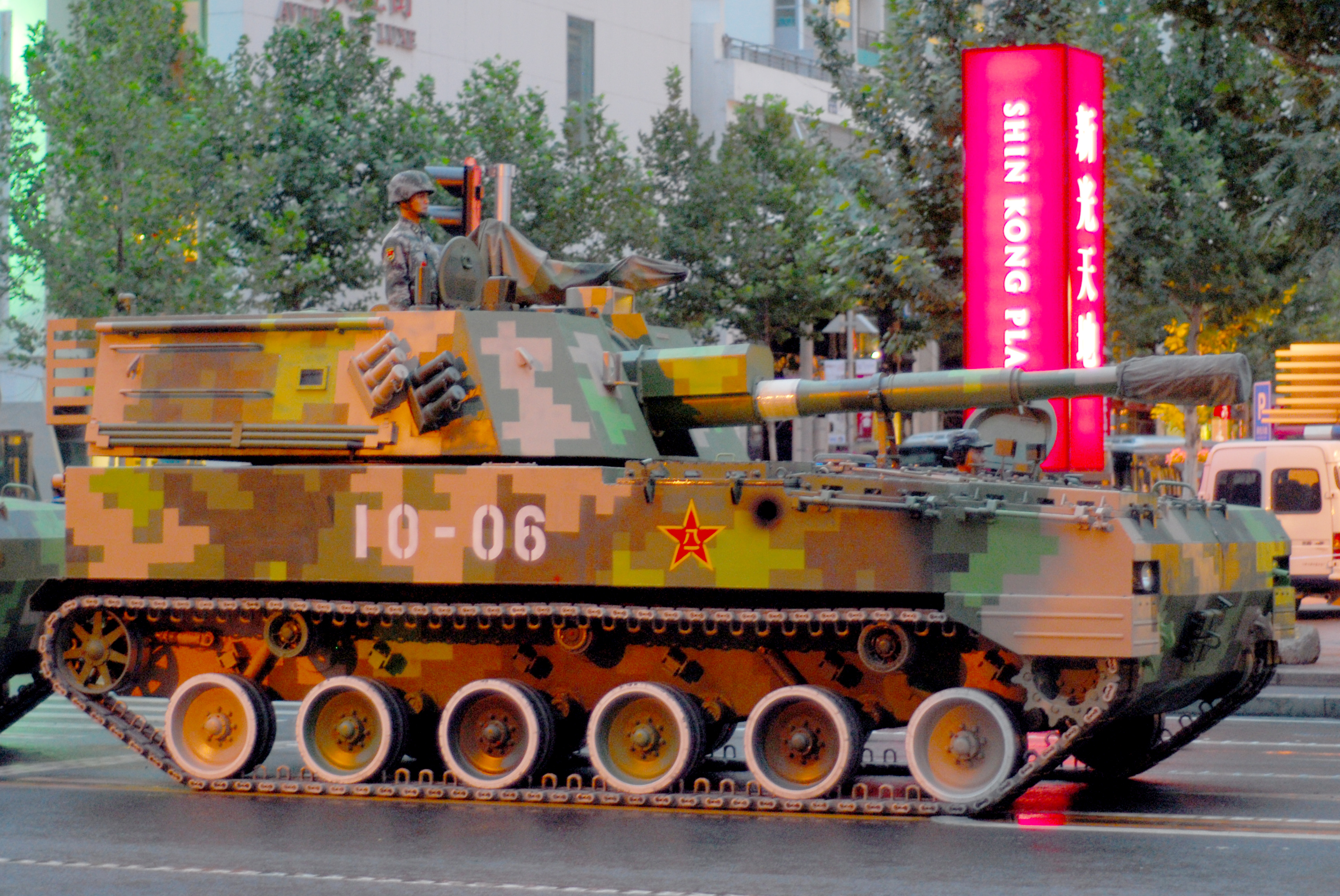 A Self-propelled artillery piece of the People's Liberation Army during the 60th anniversary parade in Beijing in 2009.